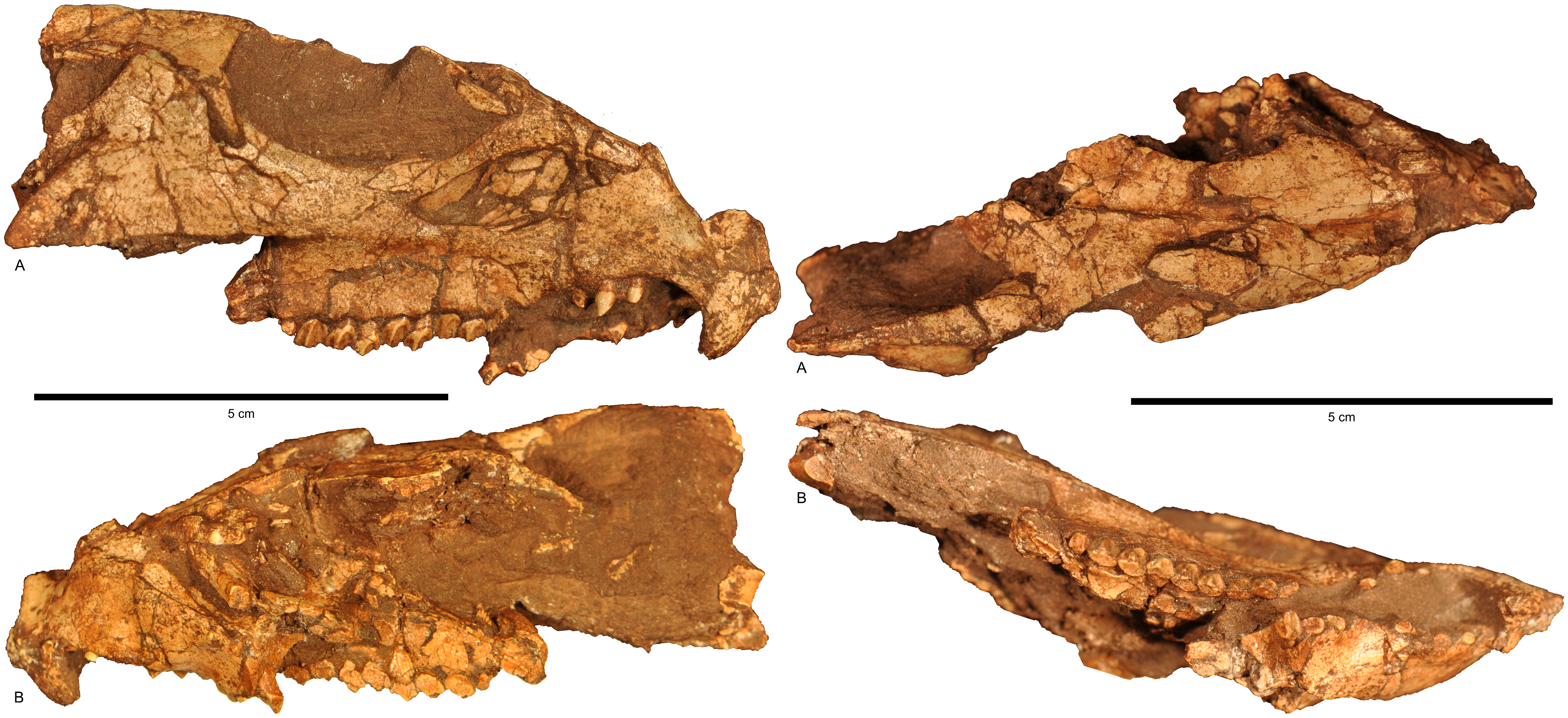 Cranium of Aquilops americanus, OMNH 34557 (holotype). Left: A) right lateral and B) left lateral views. Right: A) dorsal and B) ventral views. The rostral end of the skull is to the right side of the image.